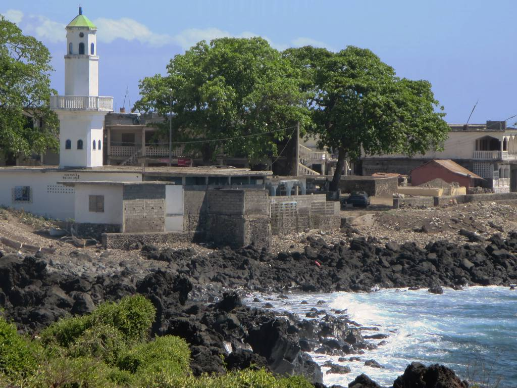 The old town of Foumbouni is near the southeast end of Grande Comore, Union of the Comoros.